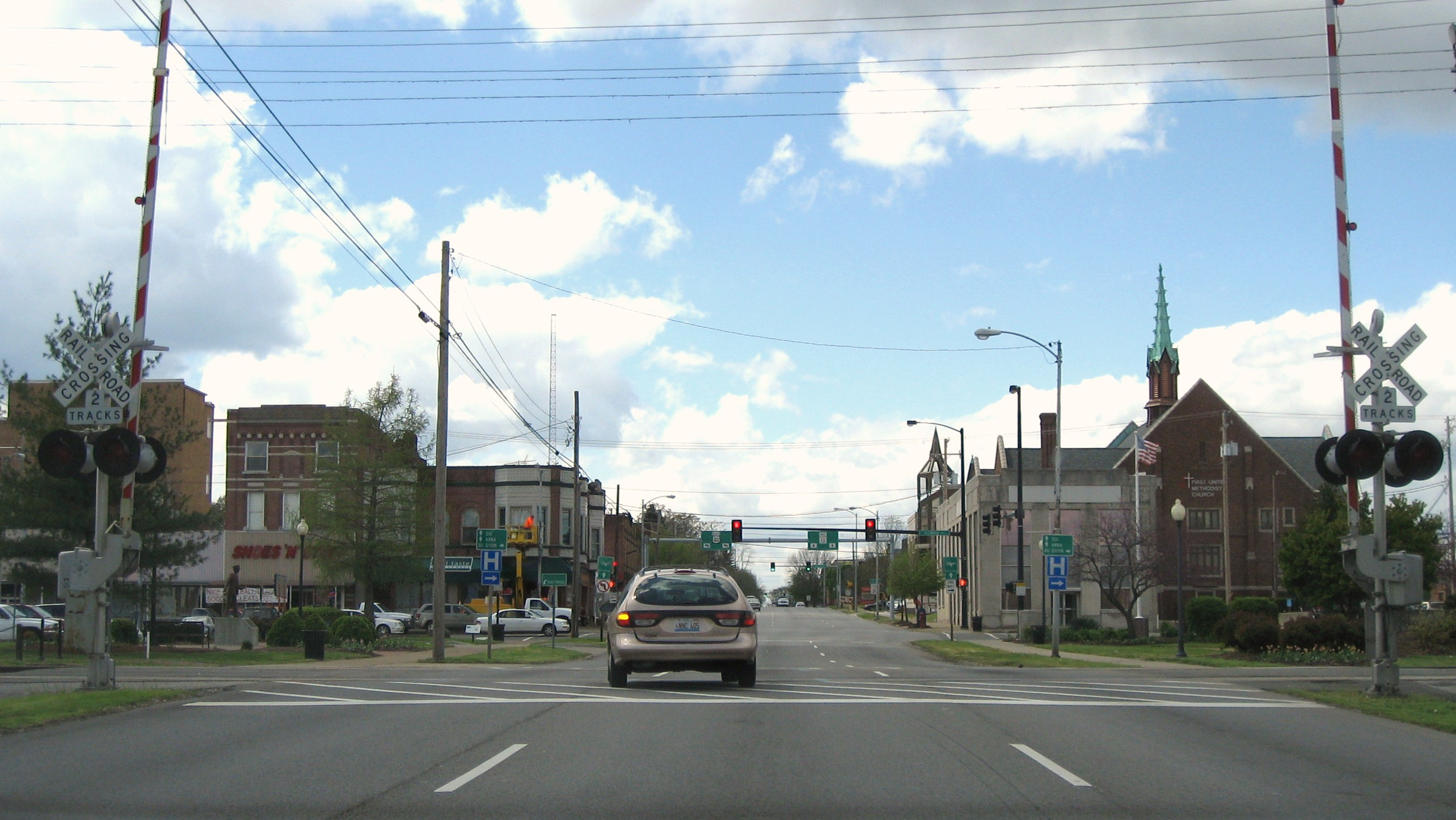 On Main Street, looking past the railroad tracks.